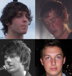 Arctic Monkeys, clockwise from top right: Jamie Cook, Matt Helders, Alex Turner, Nick O'Malley.